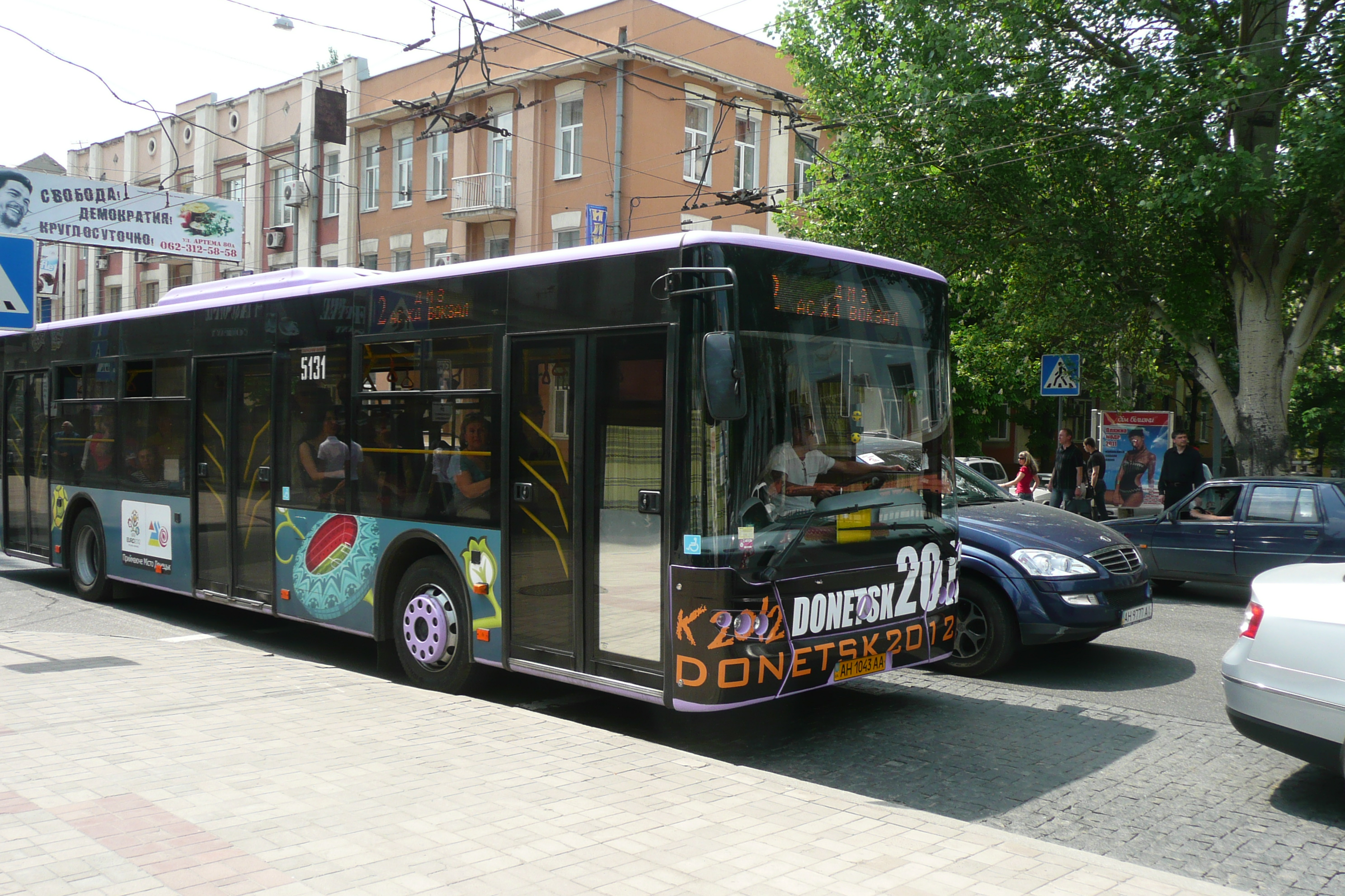 CityLAZ 12 (ЛАЗ А183D1) bus (#5131) in Donetsk, Ukraine. Built 2010, ККП ДМР Донелектроавтотранс operator.